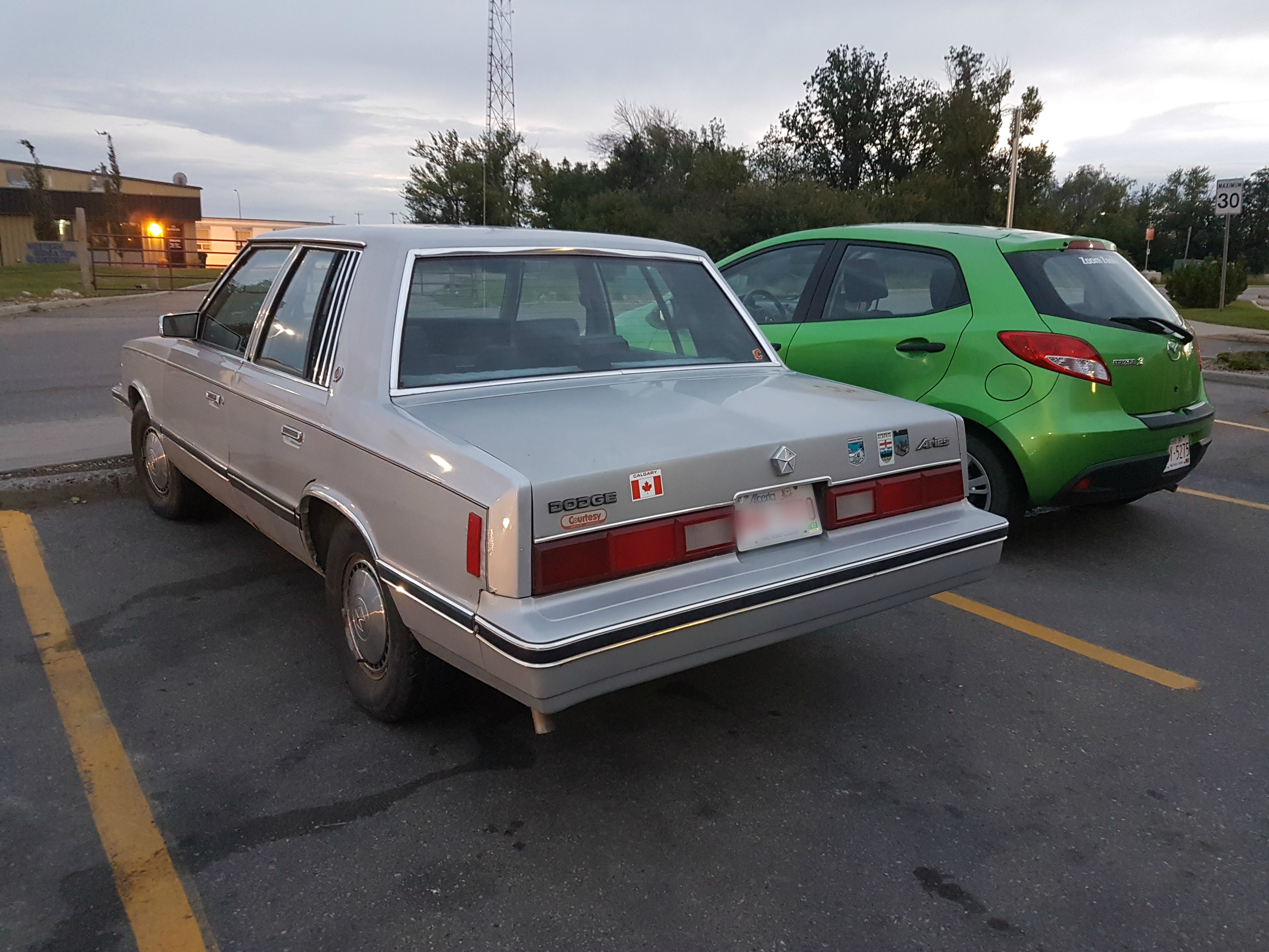 1983 Dodge Aries rear